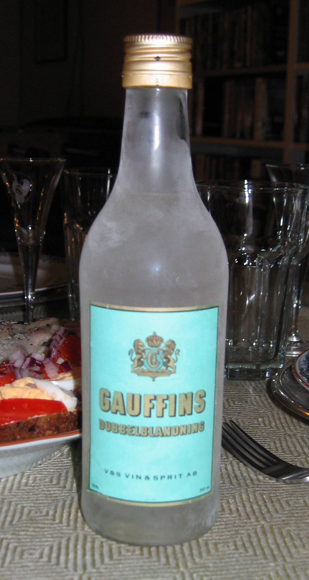 A bottle of Gauffins dubbelblandning, a traditional Swedish akvavit flavoured with anise and caraway. Production of Gauffins ended in 1998.